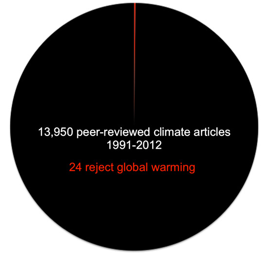 Image credit: James Lawrence Powell.